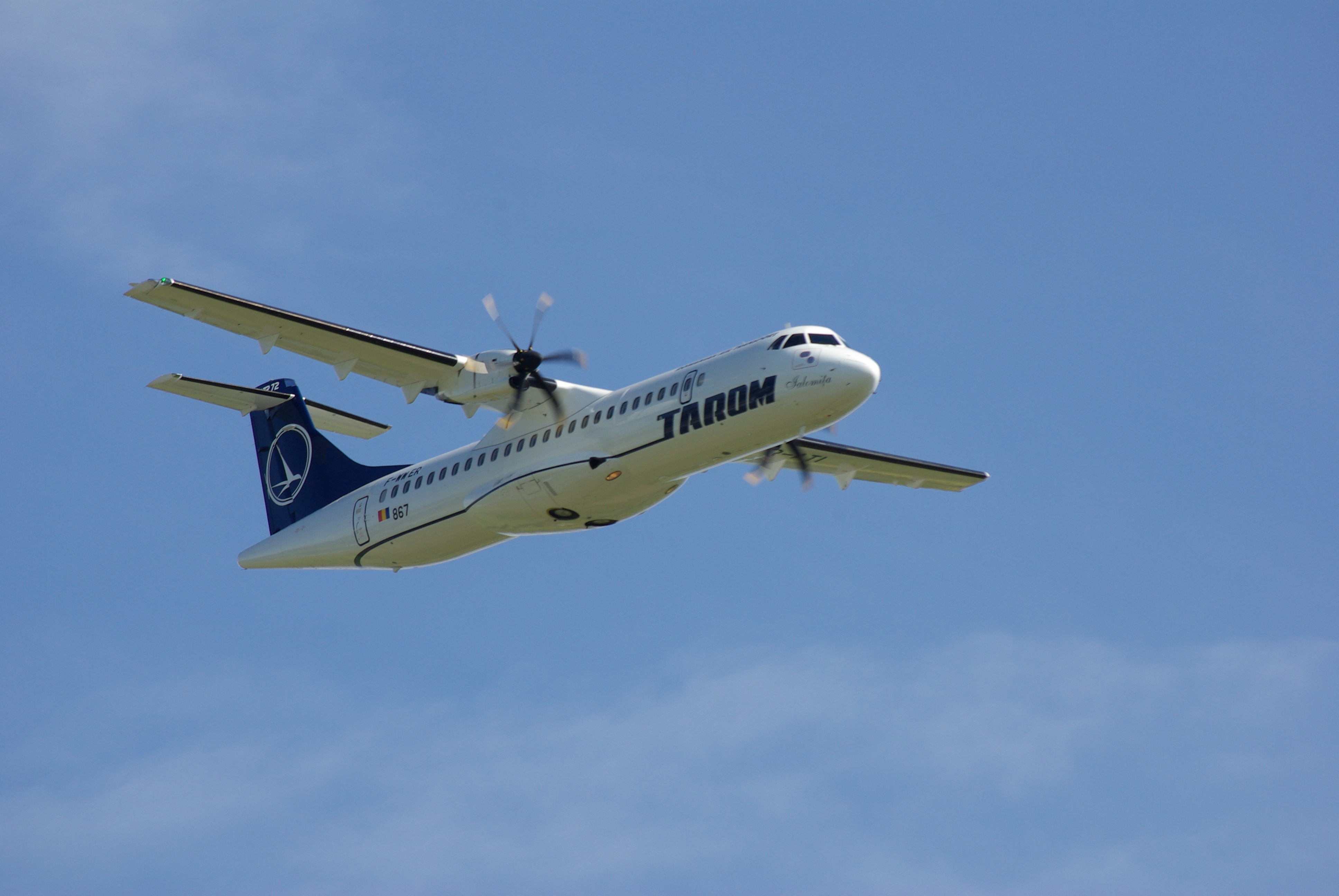 An ATR 72-500 of the romanian airlines TAROM. Aircraft displayed at the AirExpo 2009 air show (Muret, France).